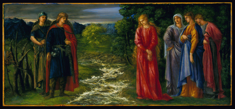 The subject of this painting is an Icelandic tale of two star-crossed lovers. Despite her love for Gunnlaug, Helga is forced to marry another. The two male suitors engage in a bloody fight that ends in both their deaths.